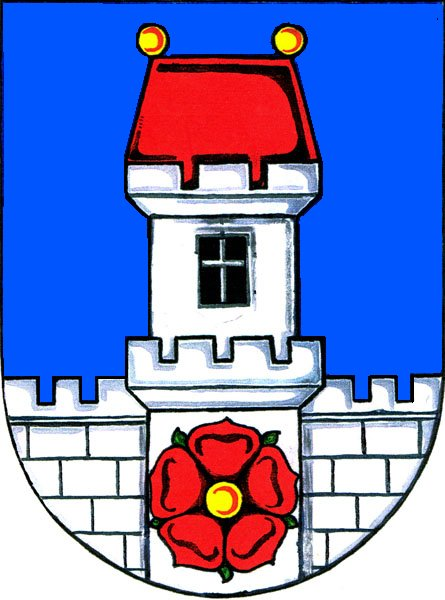 New municipal coat of arms of Trhové Sviny town, České Budějovice District, Czech Republic. Used since 2003 after town applied for switch of the rose colour from golden to red.